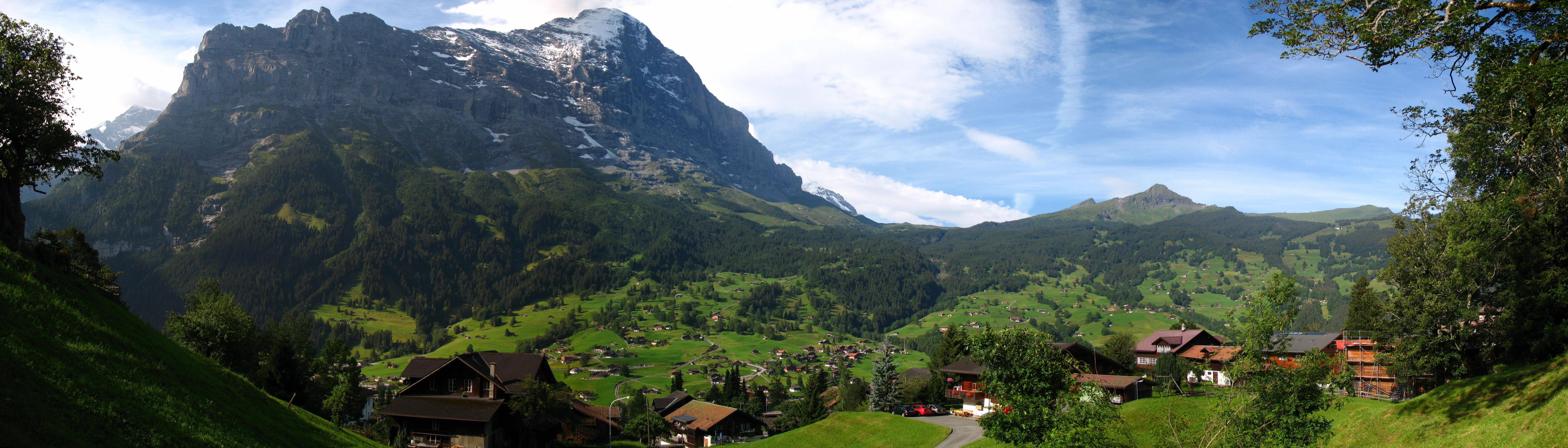 View from In der Weid (street), Grindelwald, Switzerland. To the left is the Eiger and the three mounds immediately right of the gap are the Lauberhorn, Tschuggen, and Männlichen